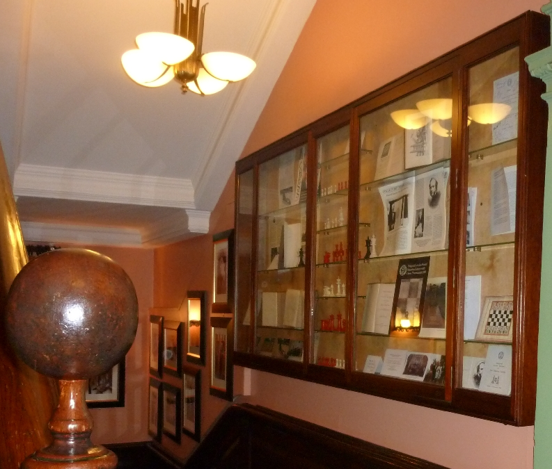 Memorabilia at the Grand Divan, the first Chess Café in England (100 Strand in London, Simpsons-in-the-Strand). Photo taken at my request, I hold the rights.